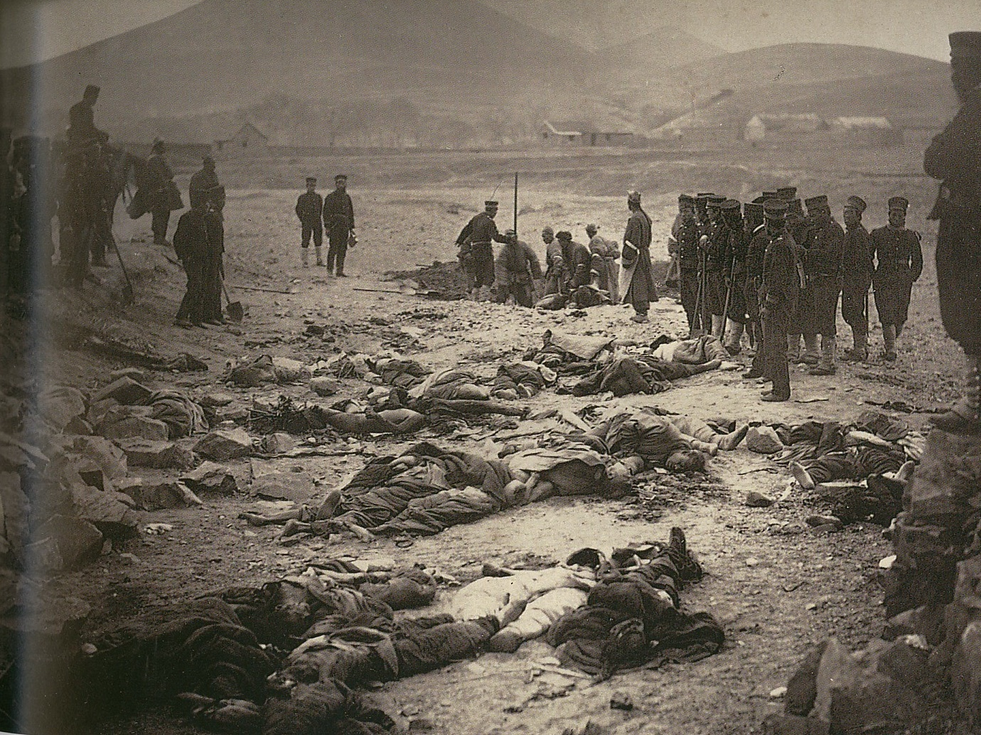 Burying dead enemy by Kamei Koreaki 1894-95